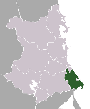 Location of Dong Hoa in Phu Yen Province